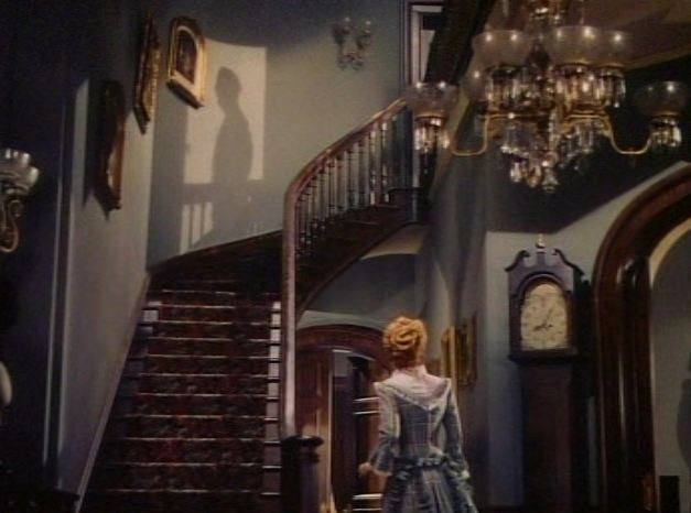 Scene from Life with Father - cropped screenshot